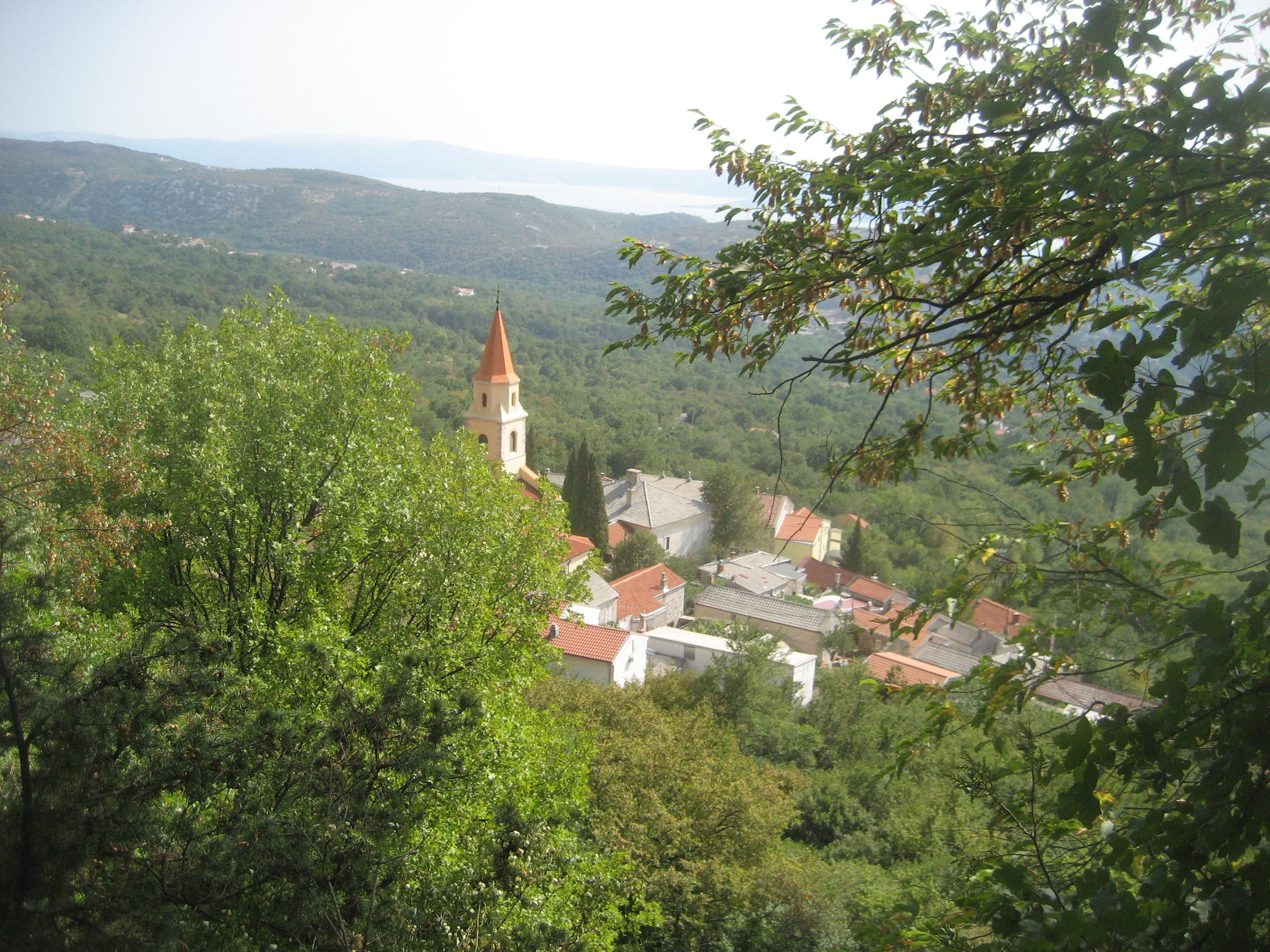 Grizane, Croatia